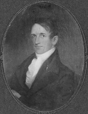 52nd Governor of South Carolin